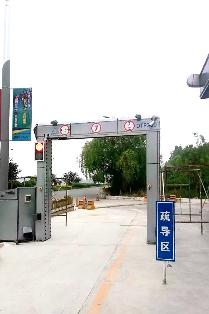 X-ray Passenger Vehicle Inspection System